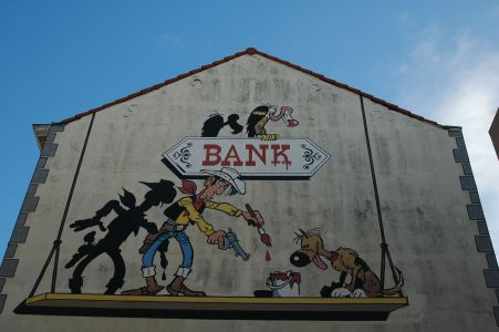 house near the comic museum in Bruxelles